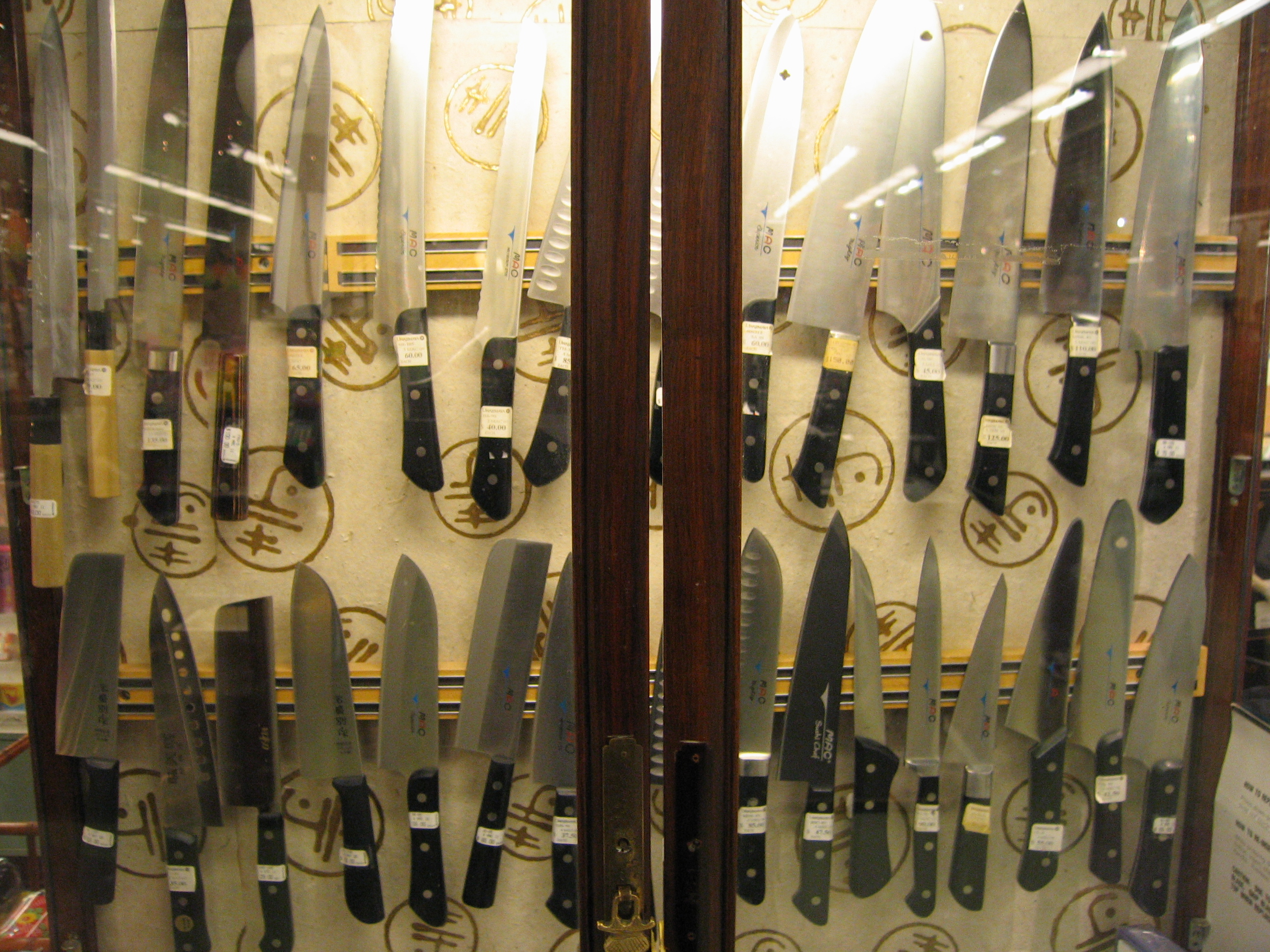 Showcase with butcher's knives